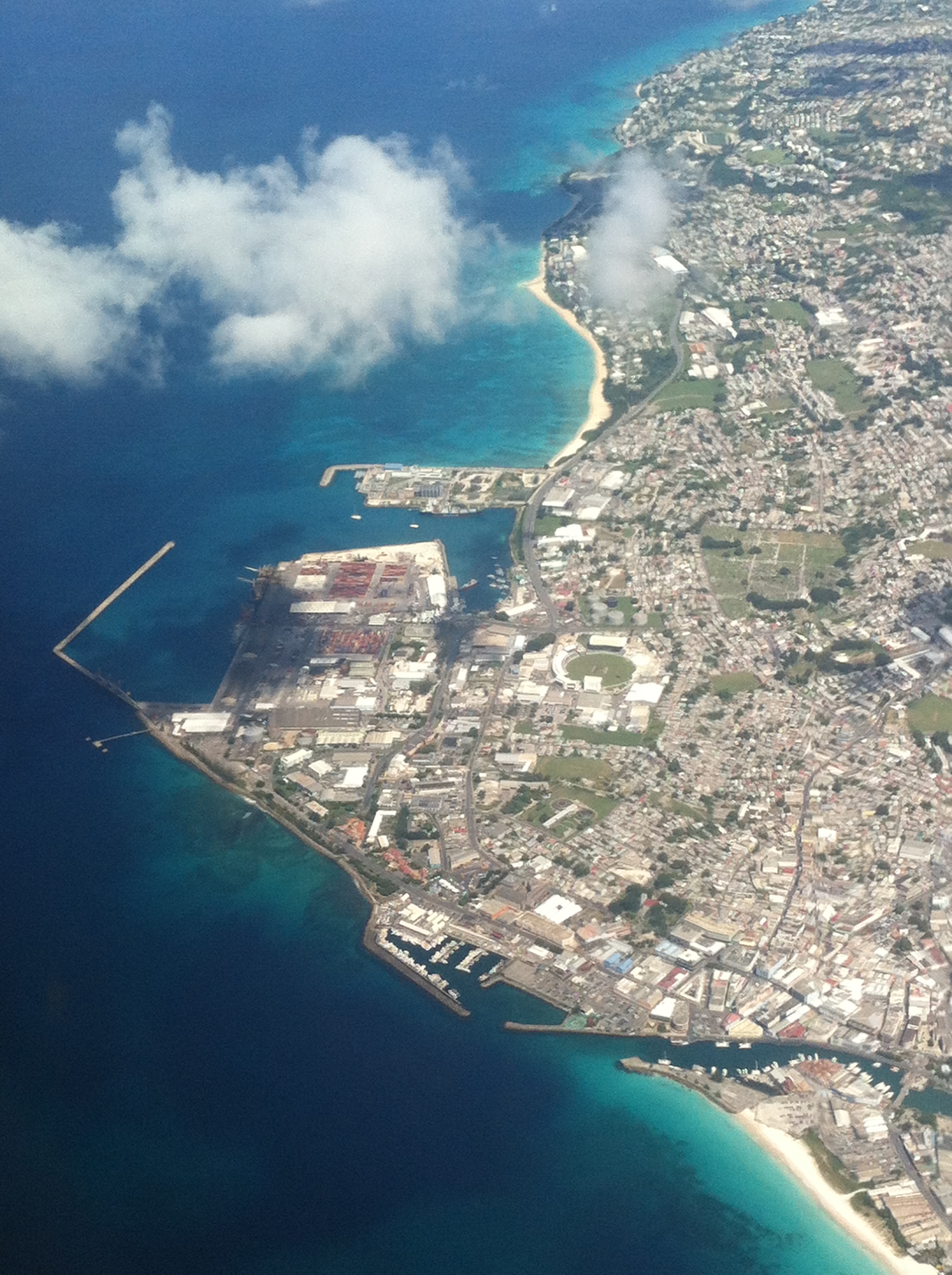 Aerial view from Bridgetown, Barbados